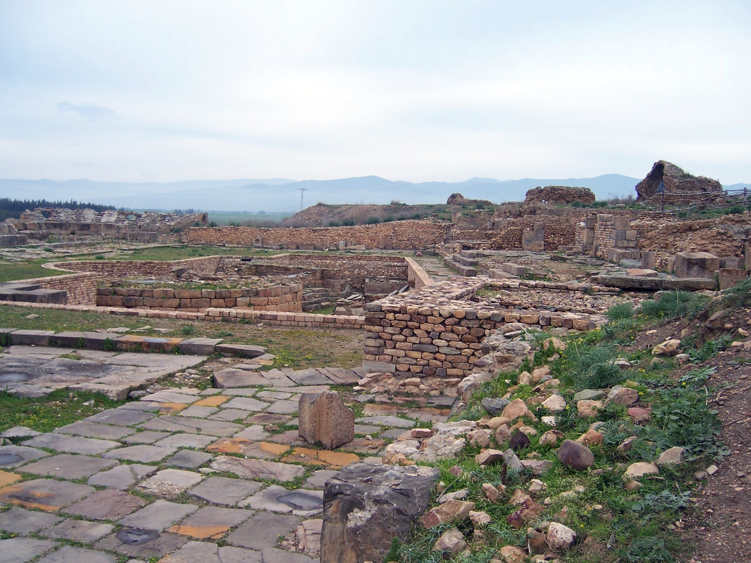 View of the ruins of the Roman forum in Chemtou, Tunisia